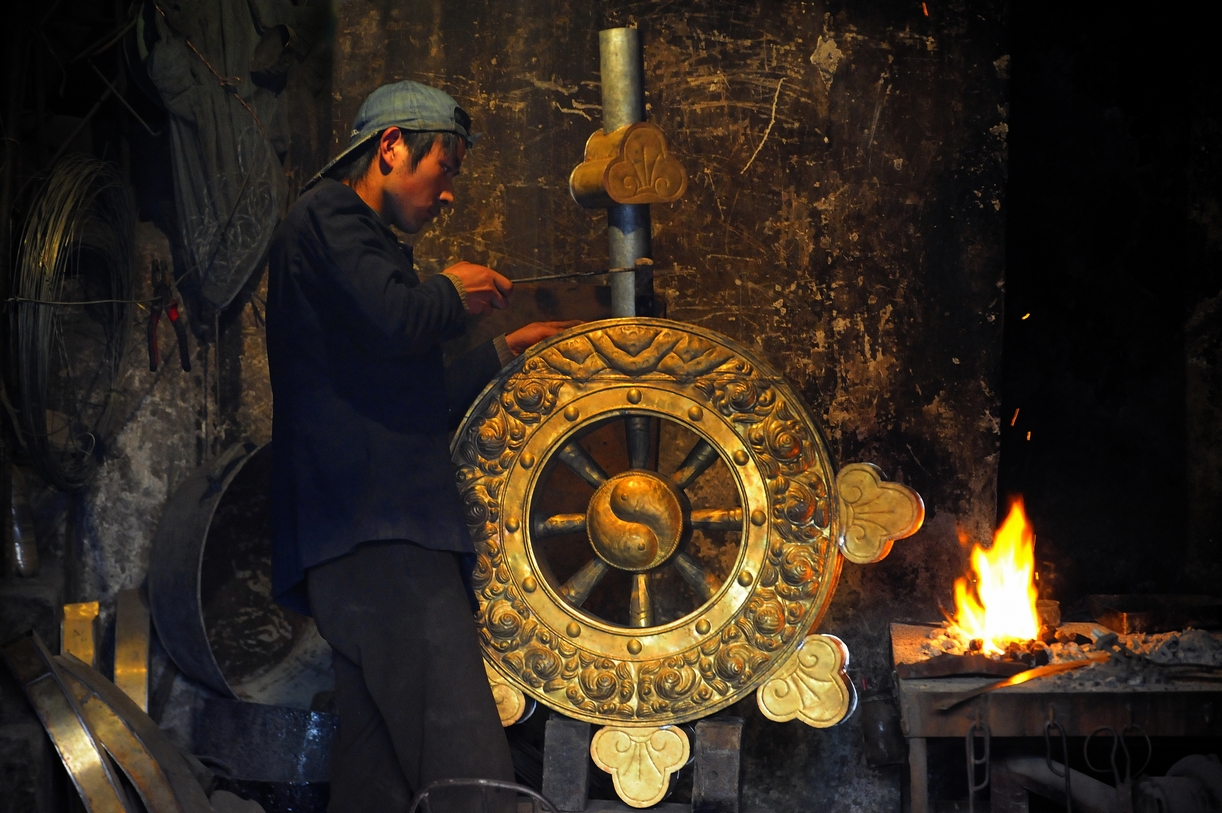 Image of a Wheel of Dharma in bronze being created by craftsman in Xining